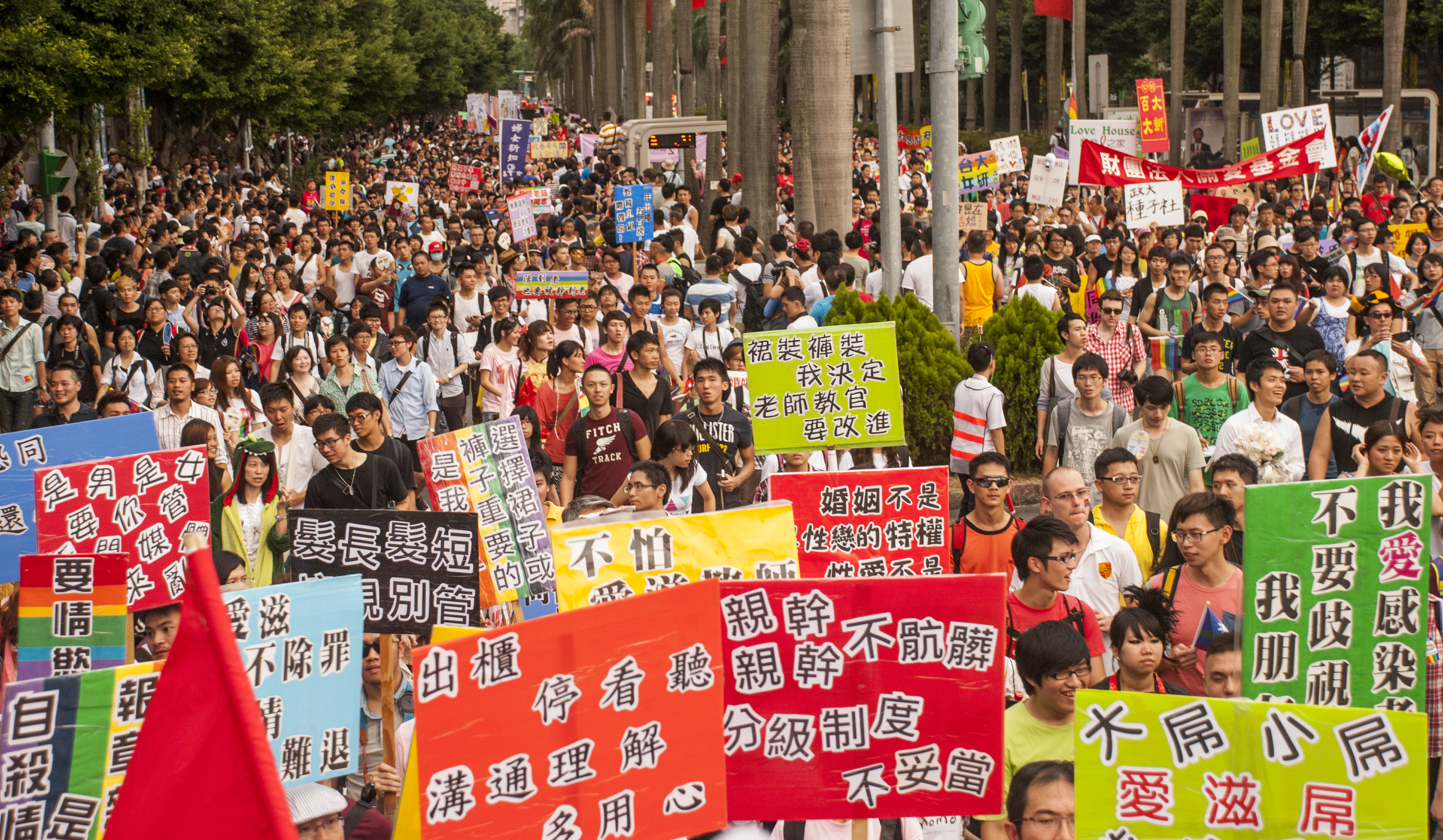 _DSC0184 2012 TW-TPE 10th LGBT Pride